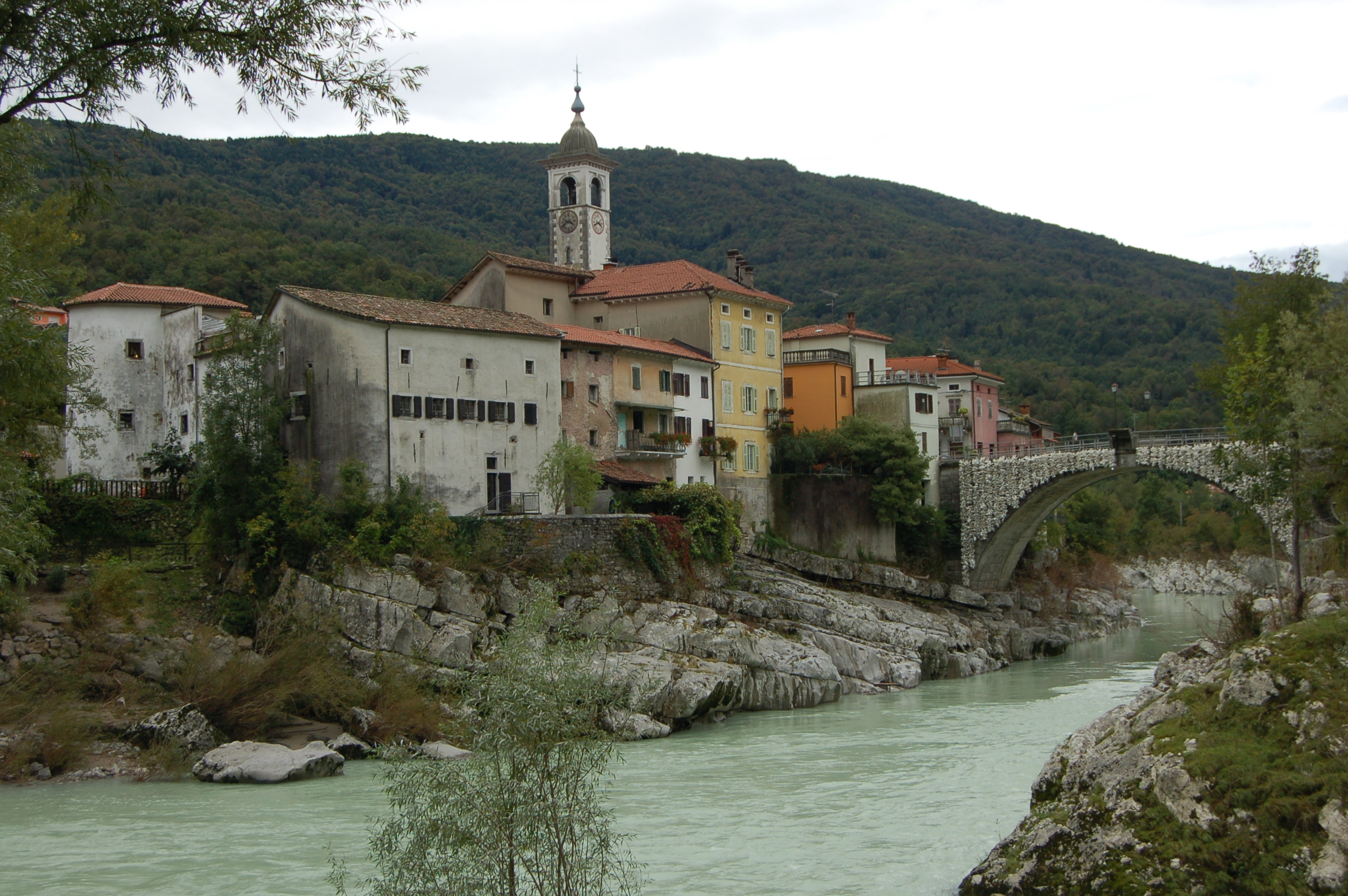 Kanal ob Soči with Soča (Italian: Isonzo) river, Primorska region, Slovenia